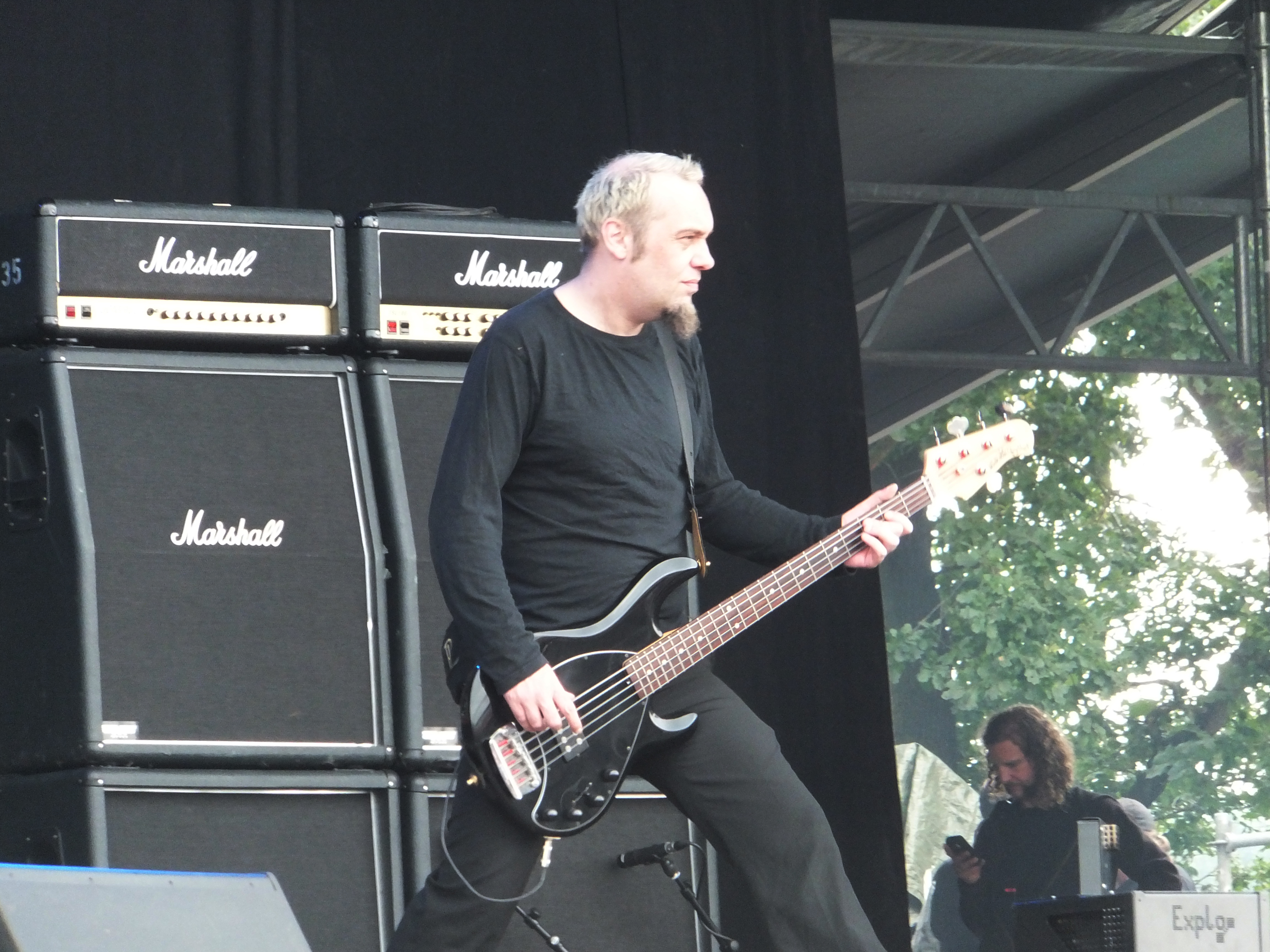 Paradise Lost at Wacken Open Air 2012